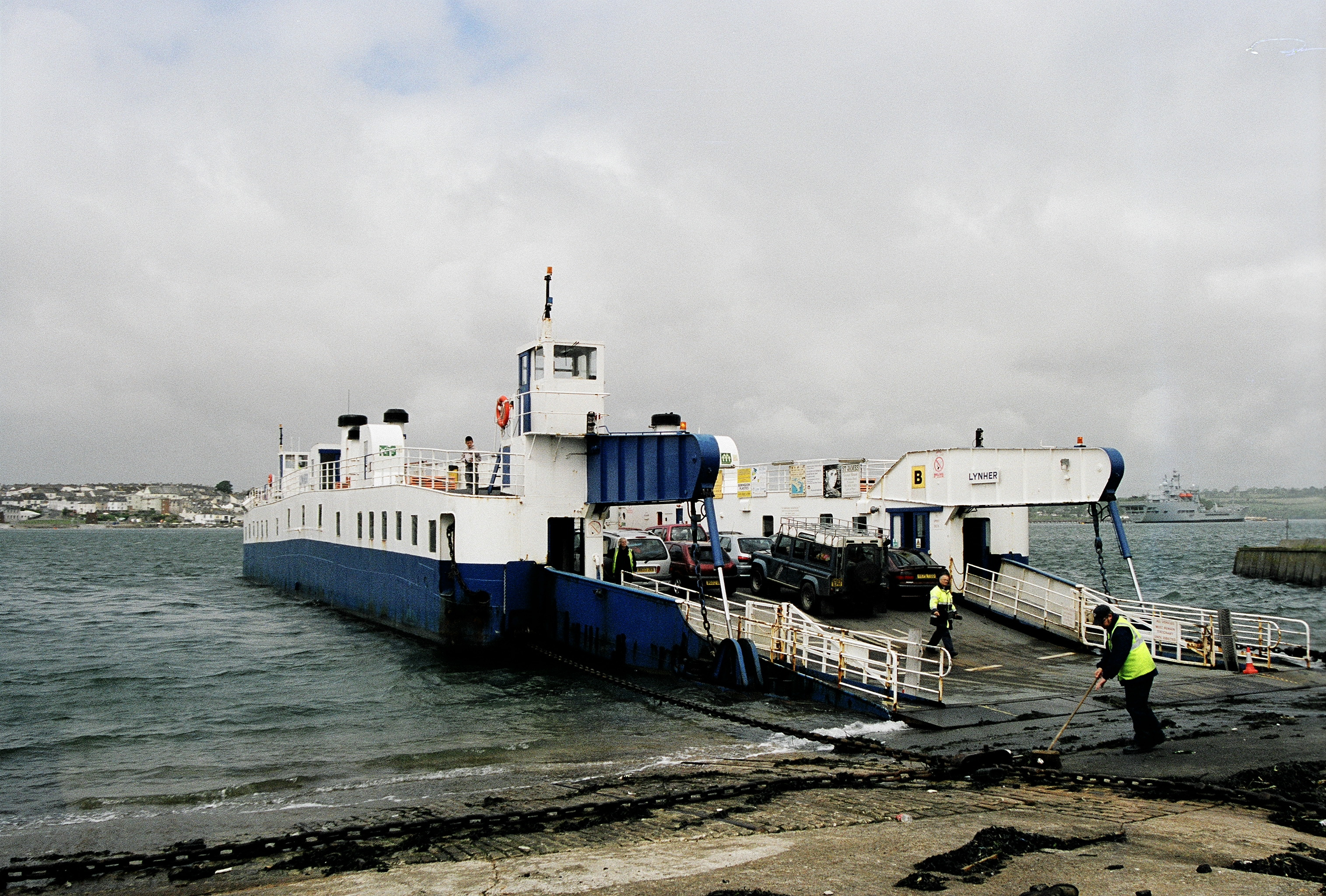 Lynher, one of the 1960s craft providing the Torpoint Ferry service.